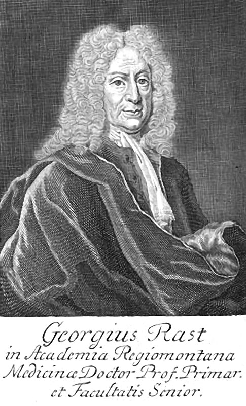 Georg Rast (1651-1729) Physician from Germany